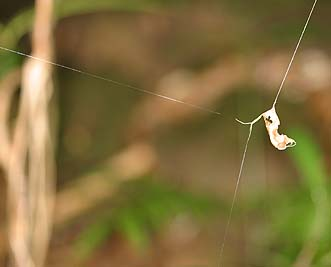 Web of Miagrammopes oblongus from Okinawa (Japan).